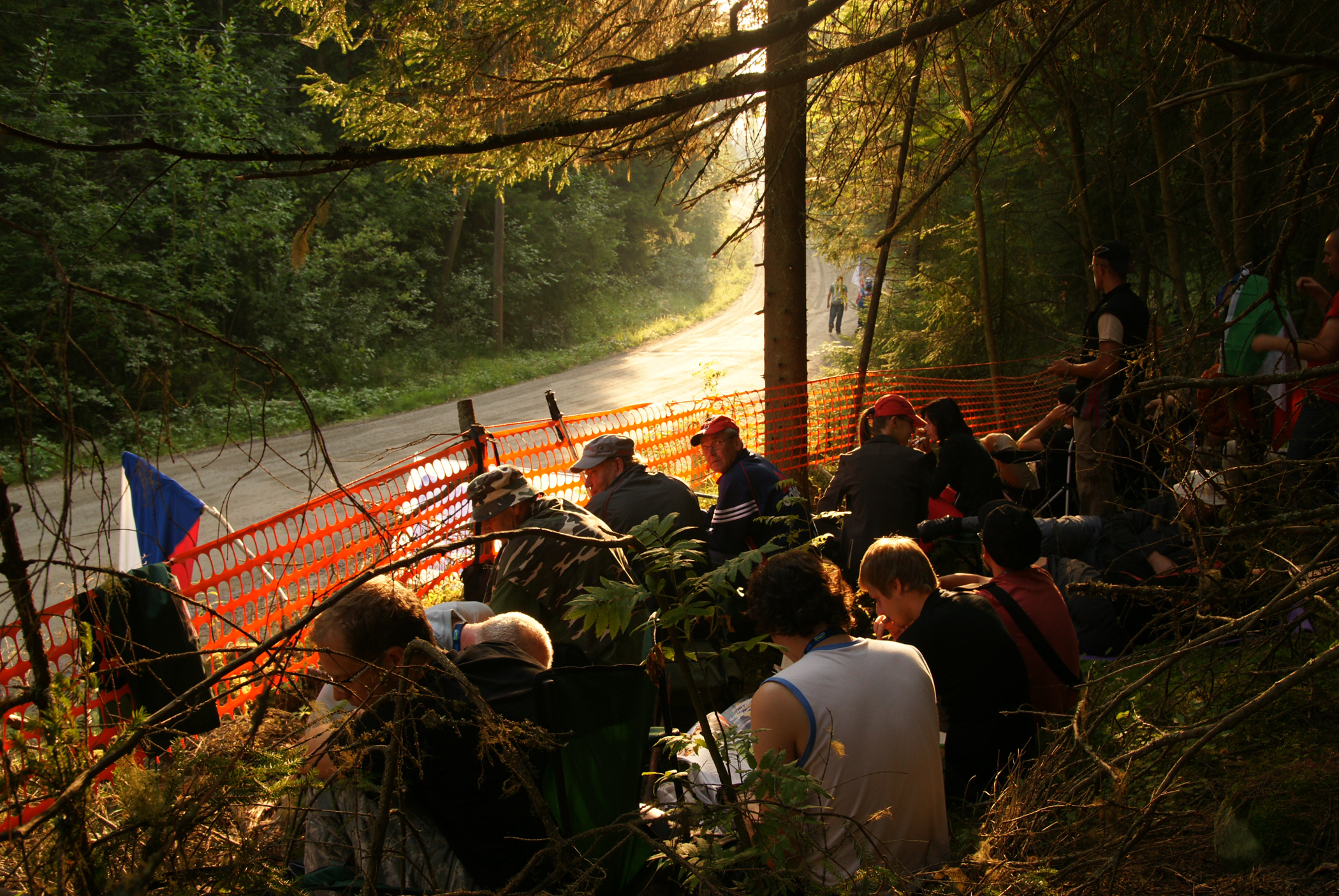 Spectators at Rannakylä shakedown in Muurame.